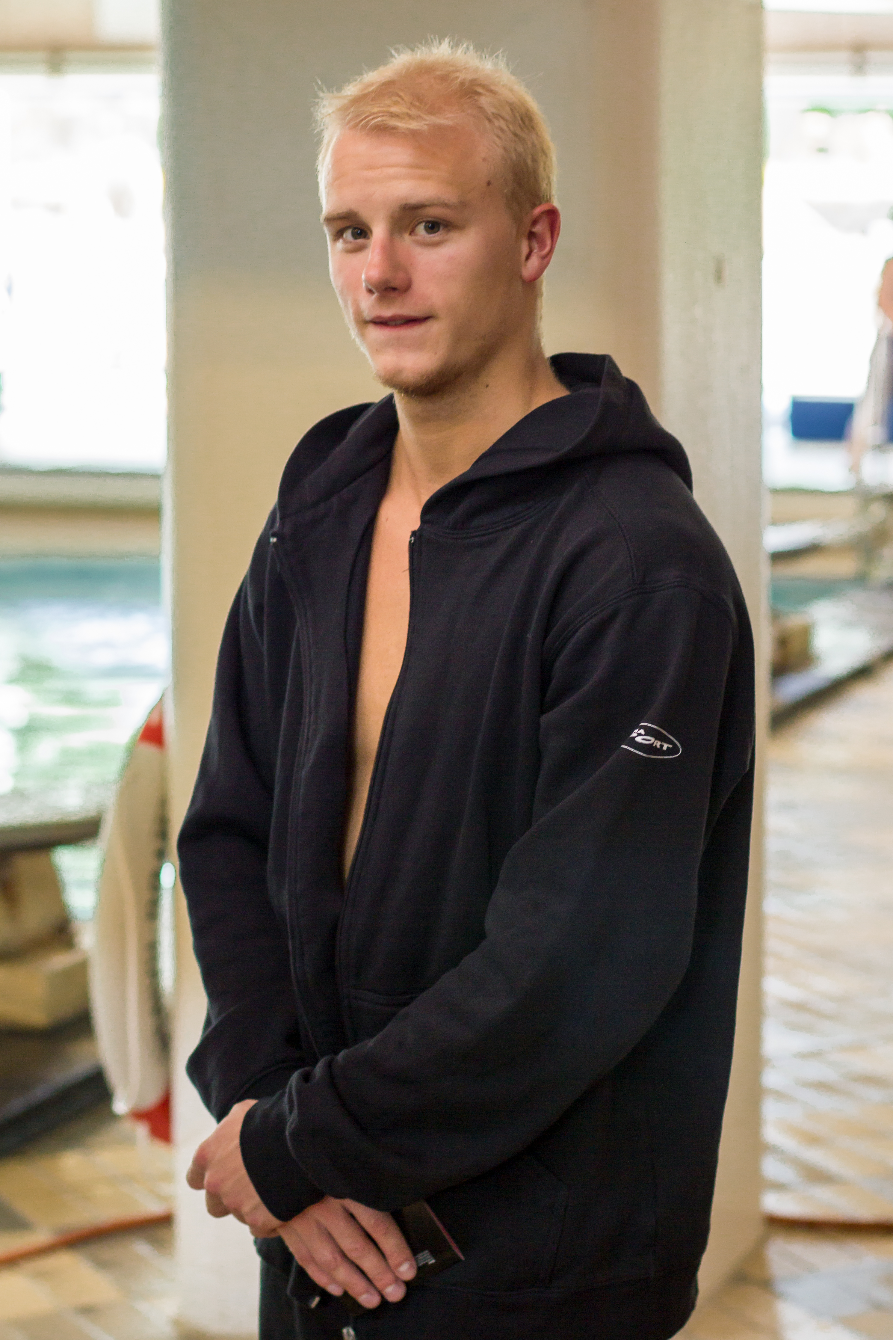 Jesper Tolvers, winner of 10 m platform diving for men, 2014 Swedish National Diving Championships.